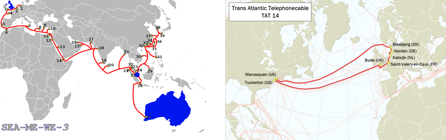 The Route of the SEA-ME-WE-3 and TAT 14Submarine Telecoms Cable.